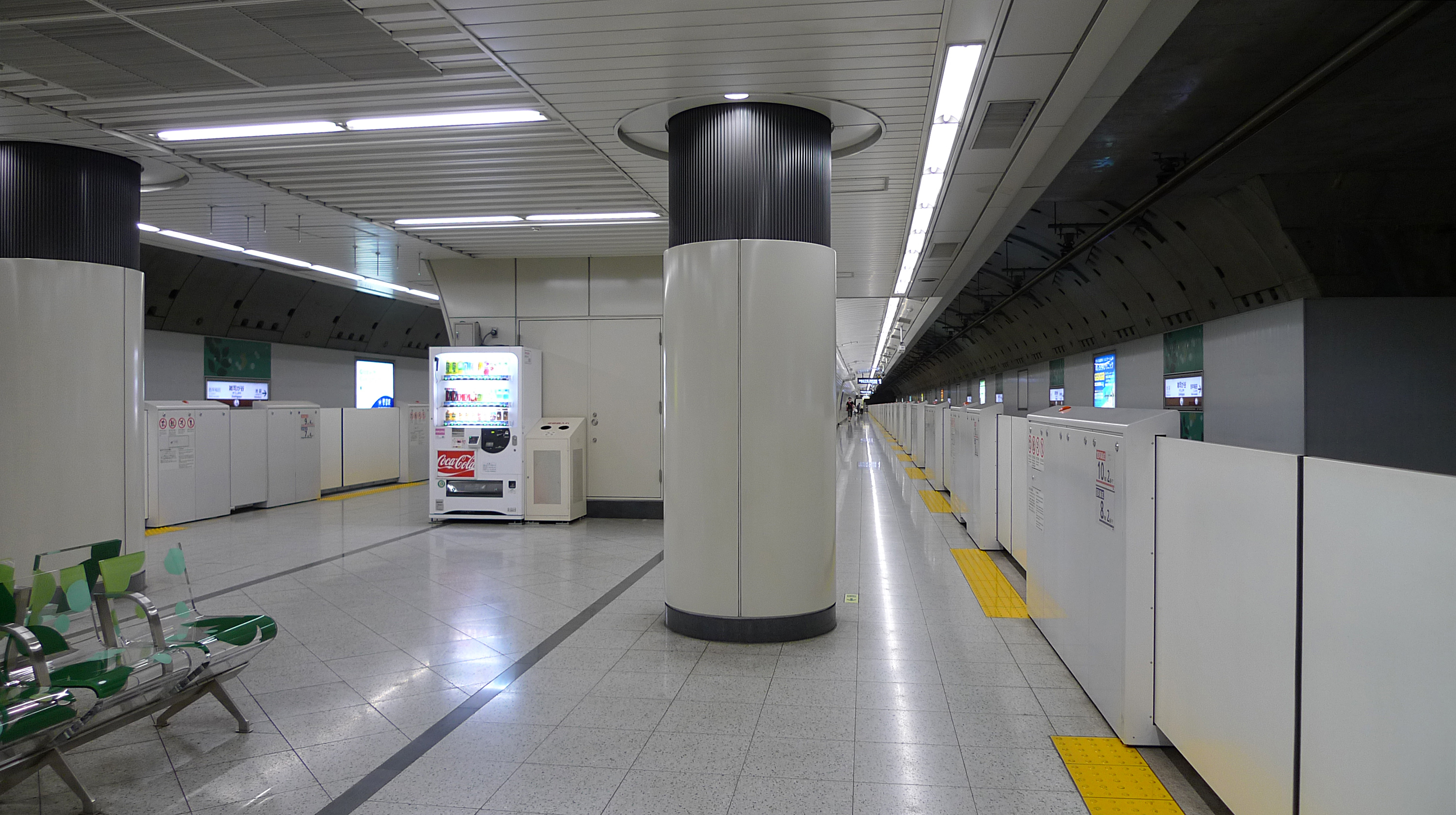 Zoshigaya station platform,Tokyo Metro Fukutoshin Line.